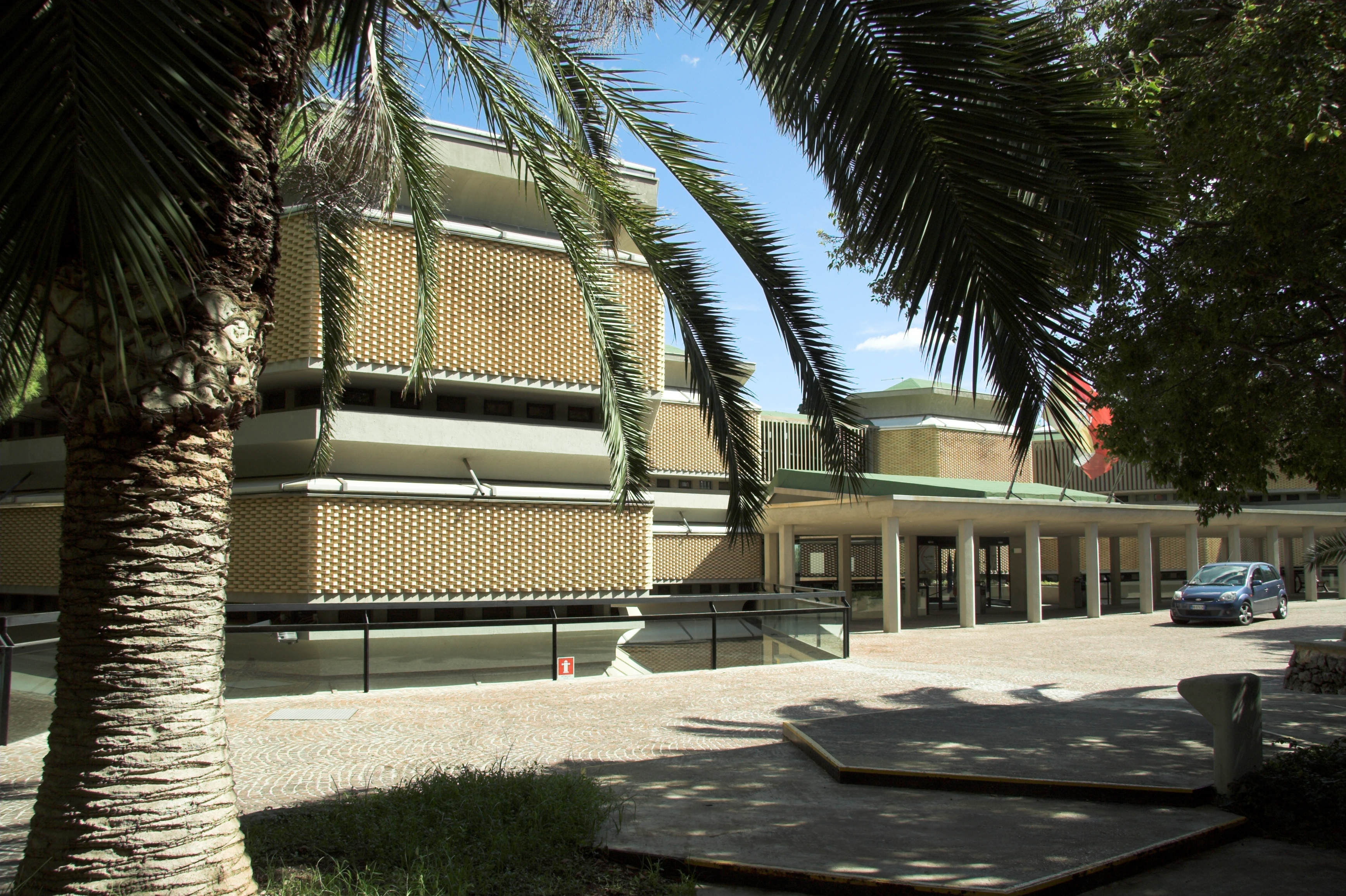 Building of the Archeological Museum of Syrakuse - Museo archeologico regionale (Syracuse).